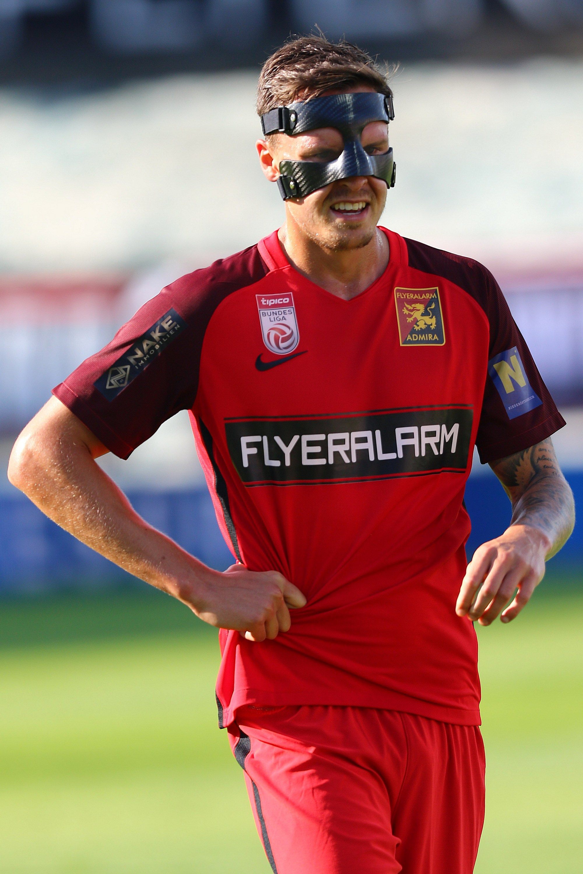 Championshipmatch of the Austrian Bundesliga 2018–19 FC Admira Wacker Mödling (red shirts) vs. LASK Linz (black-white shirts) 0-1 (0-0) at 2018-08-12 in the Bundesstadion Südstadt in Maria Enzersdorf. – The photo shows . Bjarne Thoelke